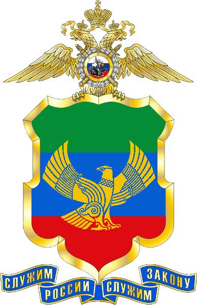 Emblem of the Interior Ministry of the Russian Federation in Republic of Dagestan